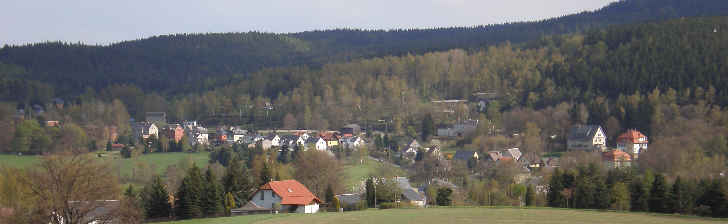 Panorama of City Part of Bad Brambach, Saxony, Germany